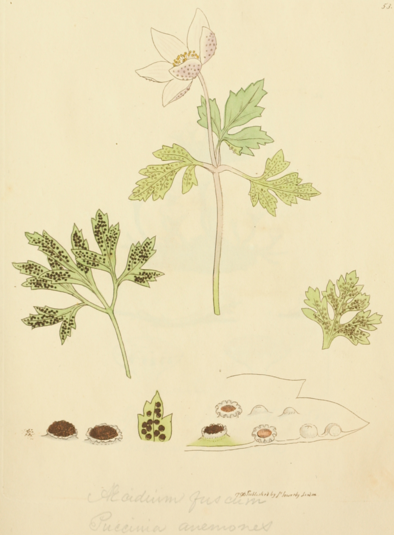 This is a plate from James Sowerby's Coloured Figures of English Fungi or Mushrooms.